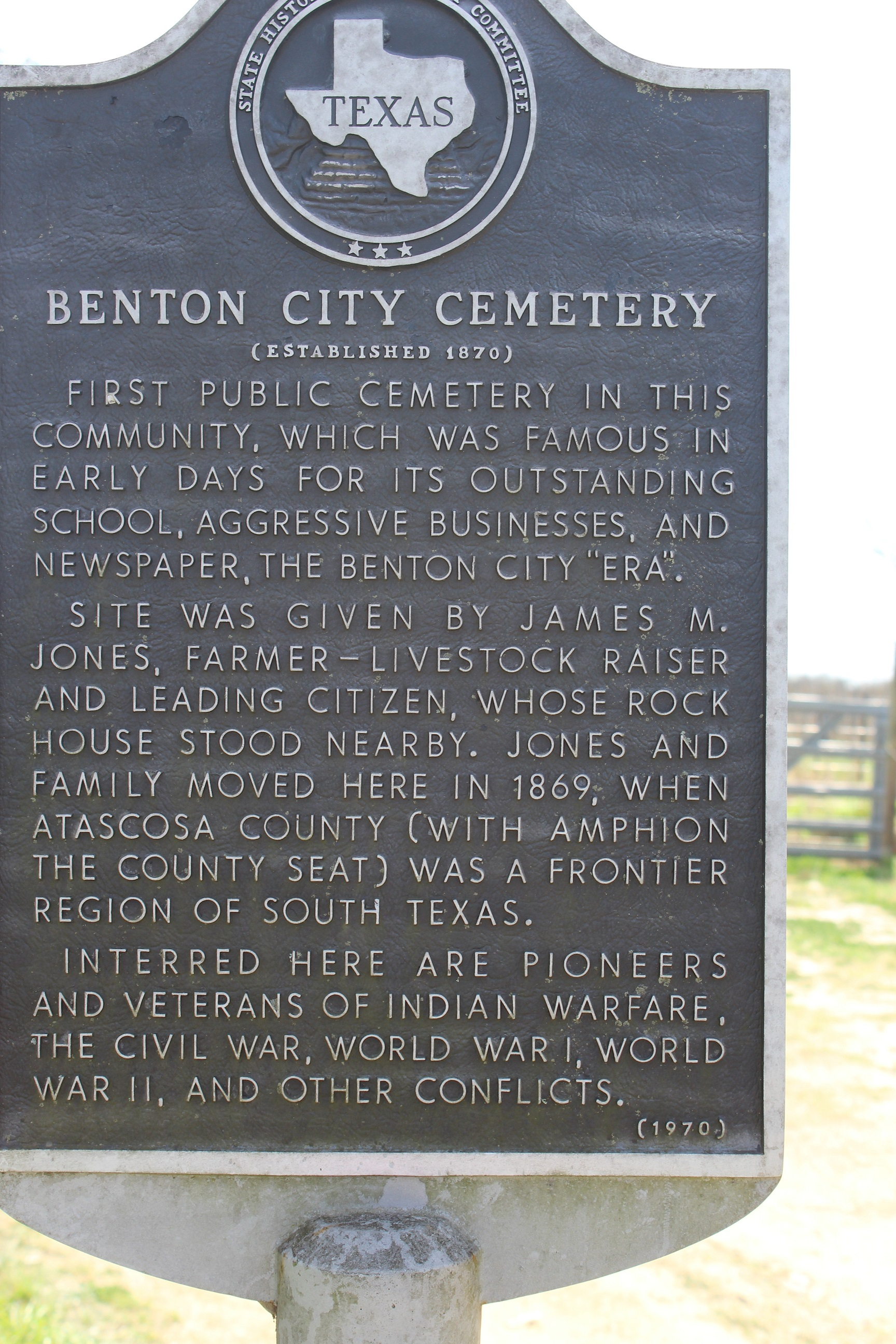 Benton City Cemetery. Benton City Cemetery (Established 1870). First public cemetery in this community, which was famous in early days for its outstanding school, aggressive businesses, and newspaper, the Benton City "Era." Site was given by James M. Jones, farmer-livestock raiser and leading citizen, whose rock house stood nearby. Jones and family moved here in 1869, when Atascosa County (with Amphion the county seat) was a frontier region of south Texas. Interred here are pioneers and veterans of Indian warfare, the Civil War, World War I, World War II, and other conflicts. #373